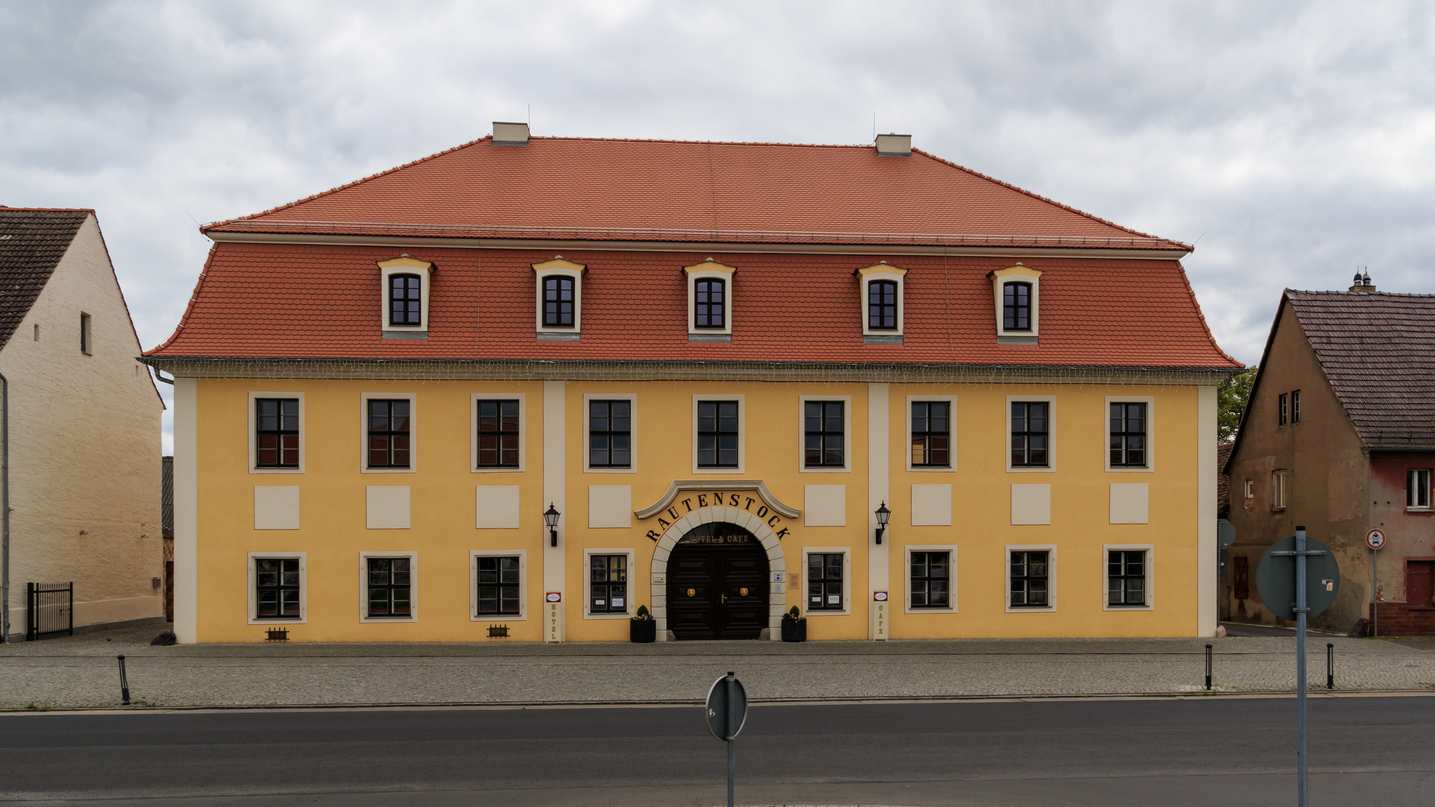 Doberlug-Kirchhain (Brandenburg, Germany): Haus Rautenstock (listed)